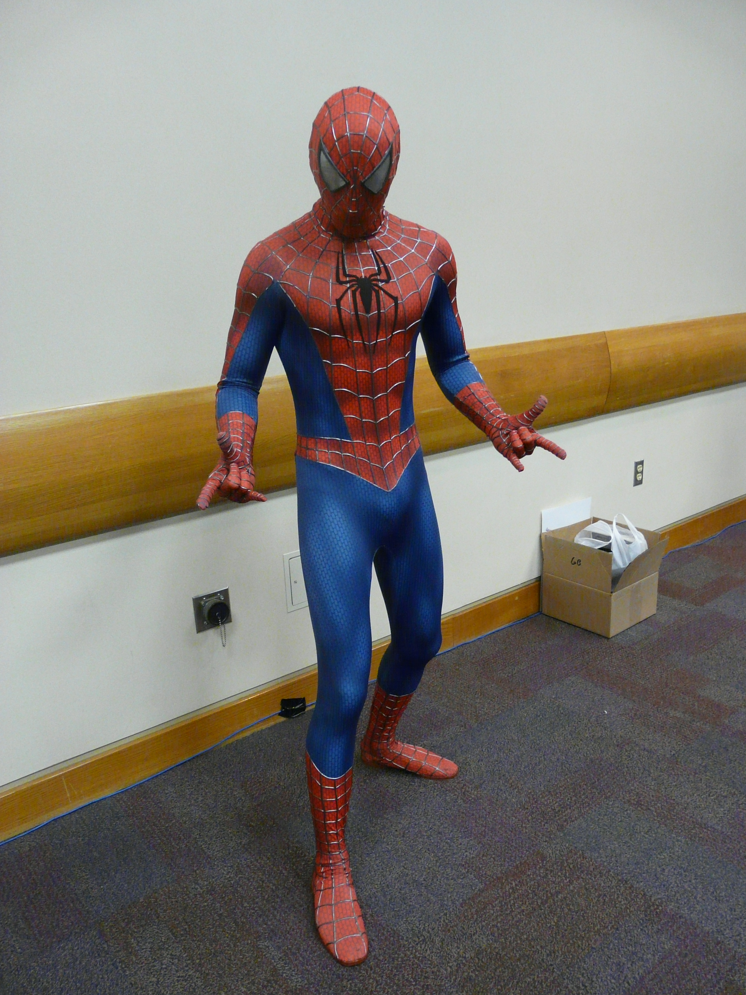 Picture of Gen Con Indy 2008 in Indianapolis, Indiana, USA.